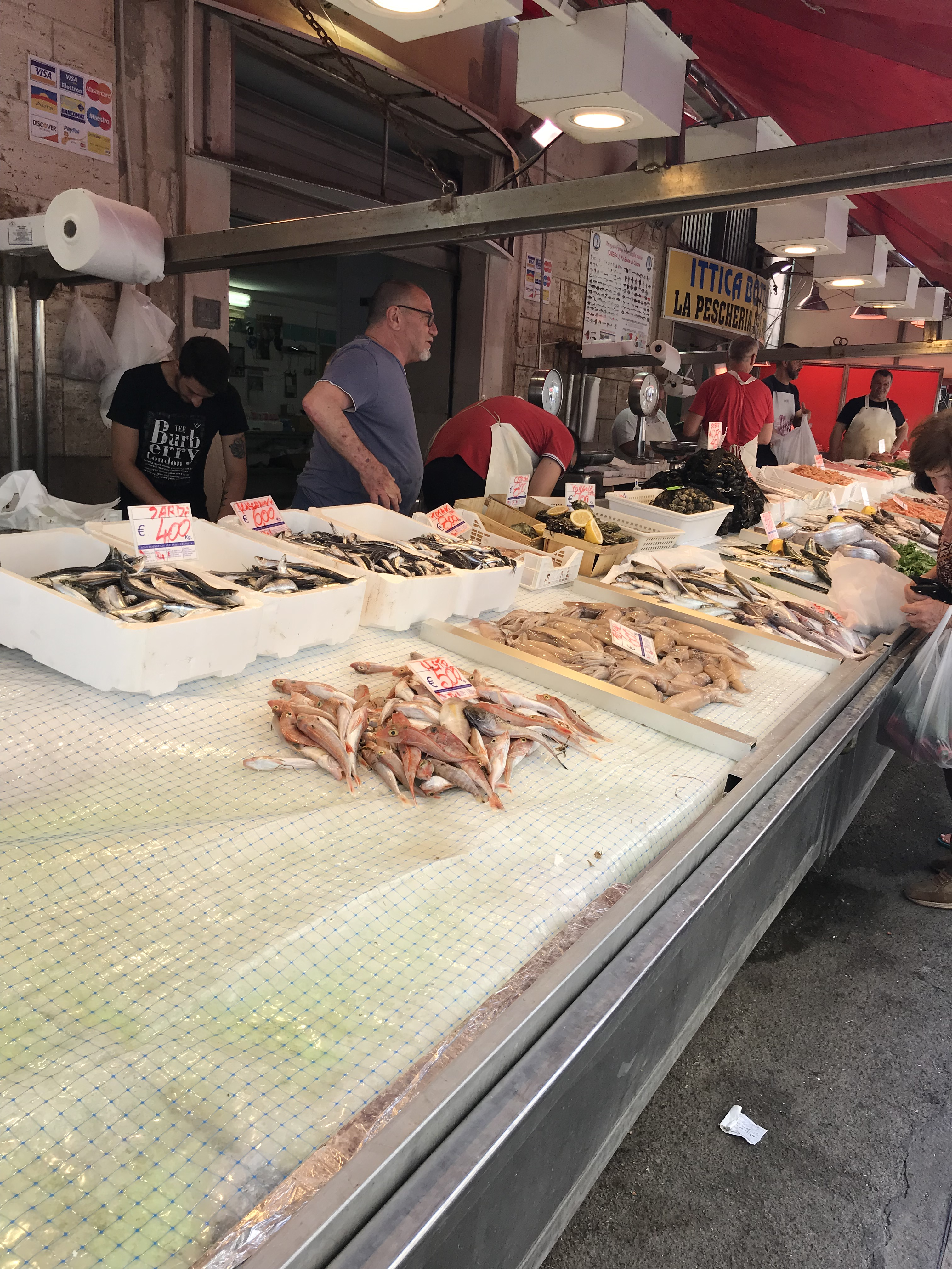 The market in Ortygia where many agricultural products and seafood may be purchased.